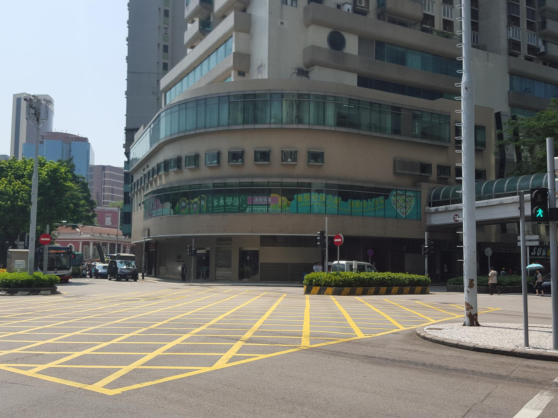 Head office of the Education and Youth Affairs Bureau (DSEJ)